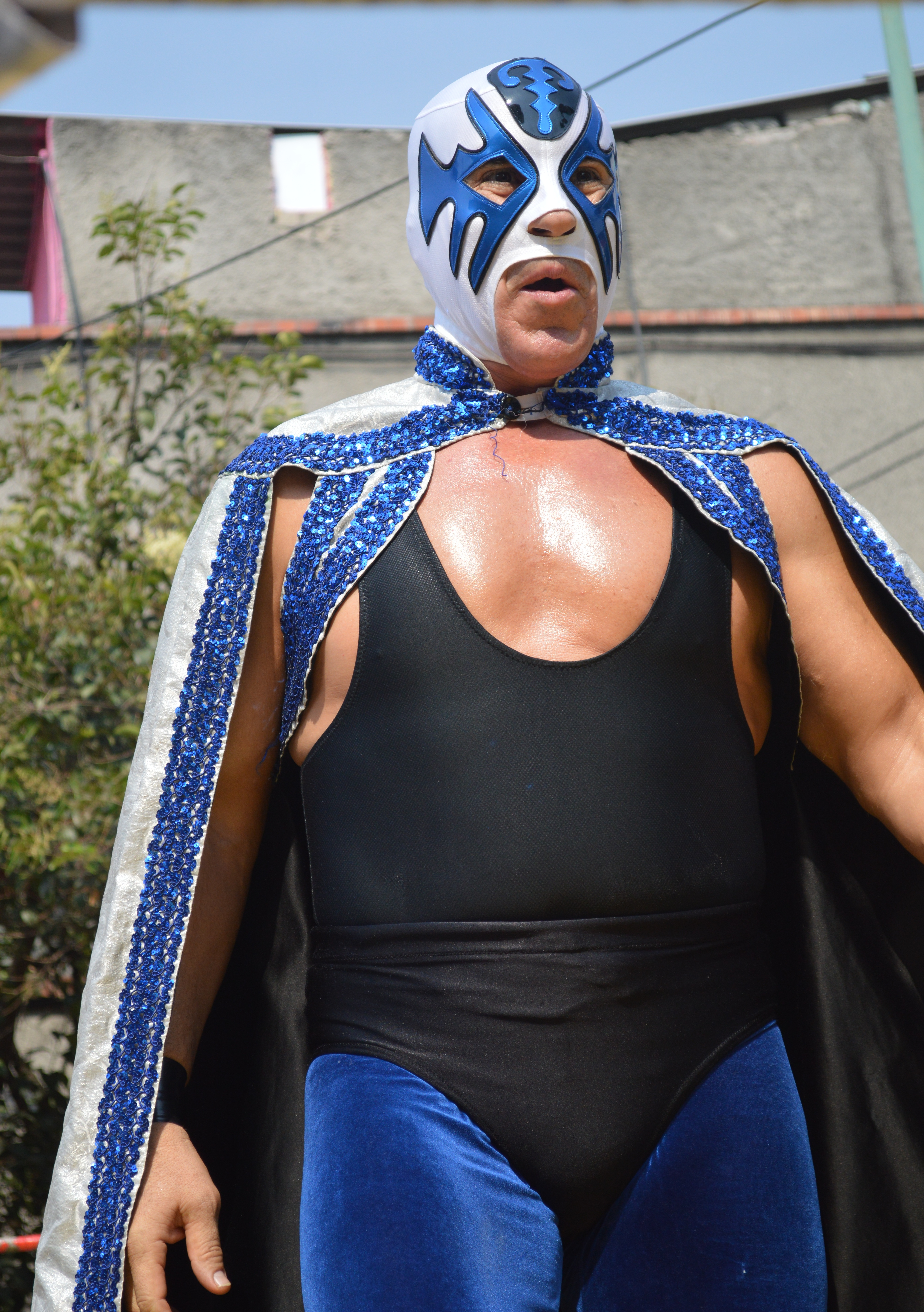 Atlantis at CMLL lucha libre event part of Festival Día de Reyes Territorial Obrera Doctores in Mexico City